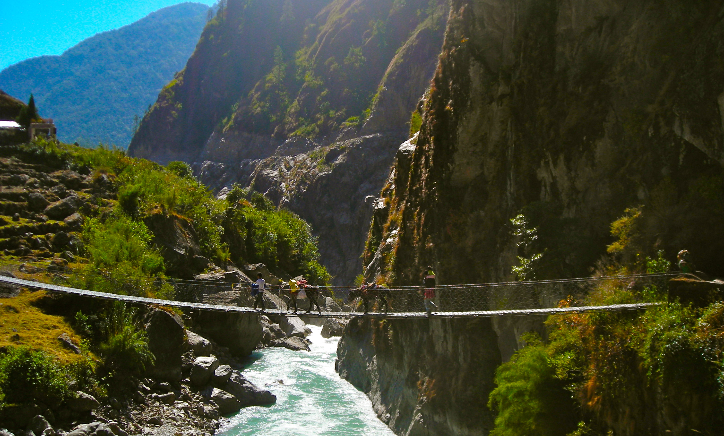 Jagat, Nepal.